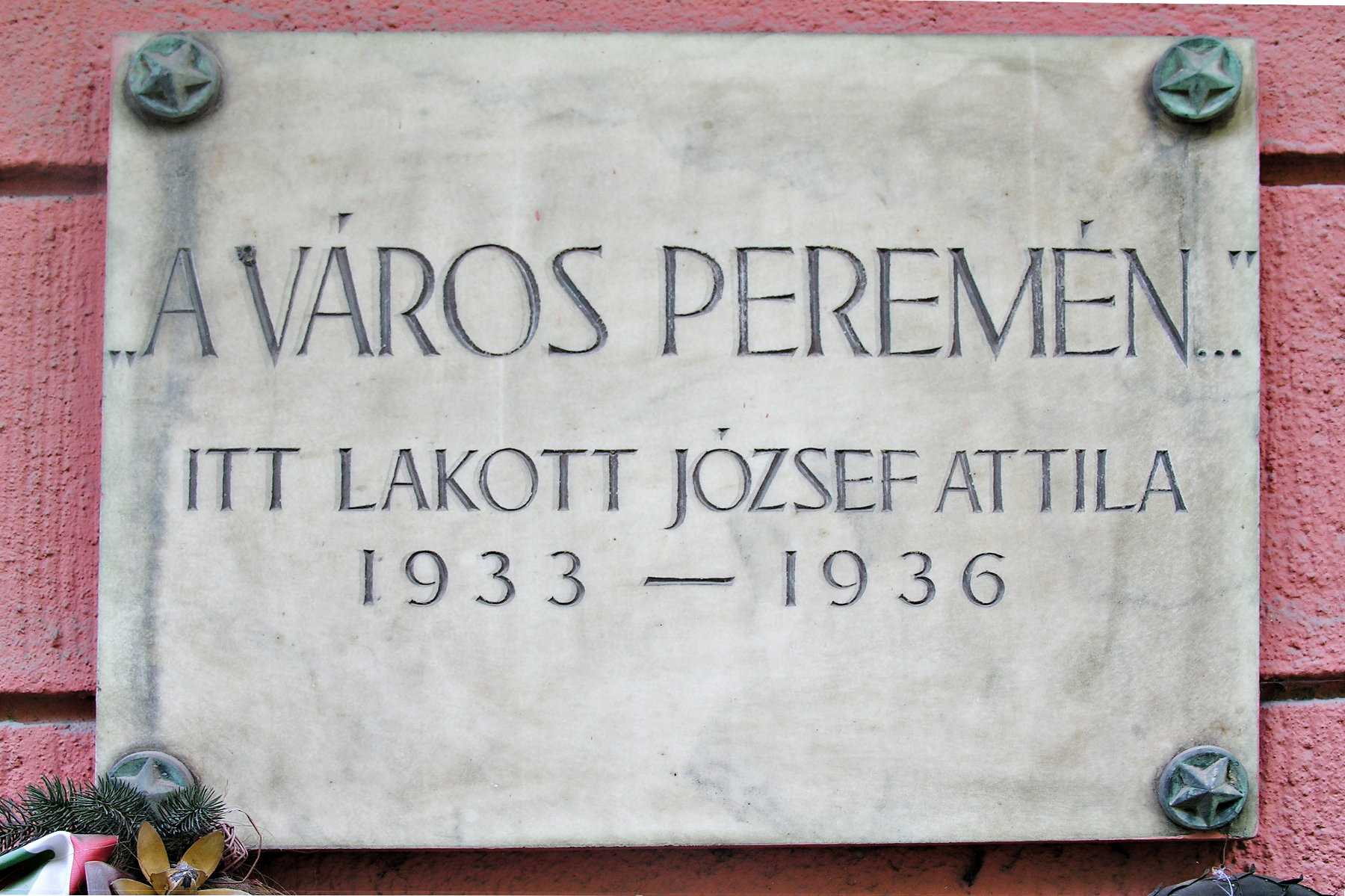 Commemorative plaque of Attila József, Budapest District XIV, Korong Street No 6